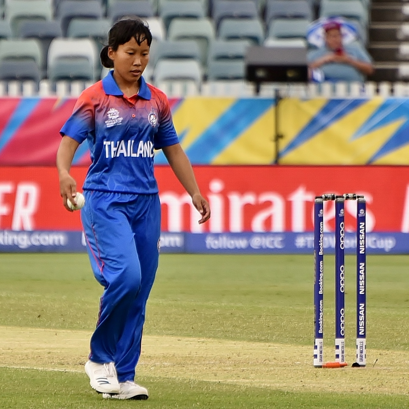 Suleeporn Laomi returning to her mark while bowling for Thailand against the West Indies during their 2020 ICC Women's T20 World Cup match at the WACA Ground in Perth, Australia